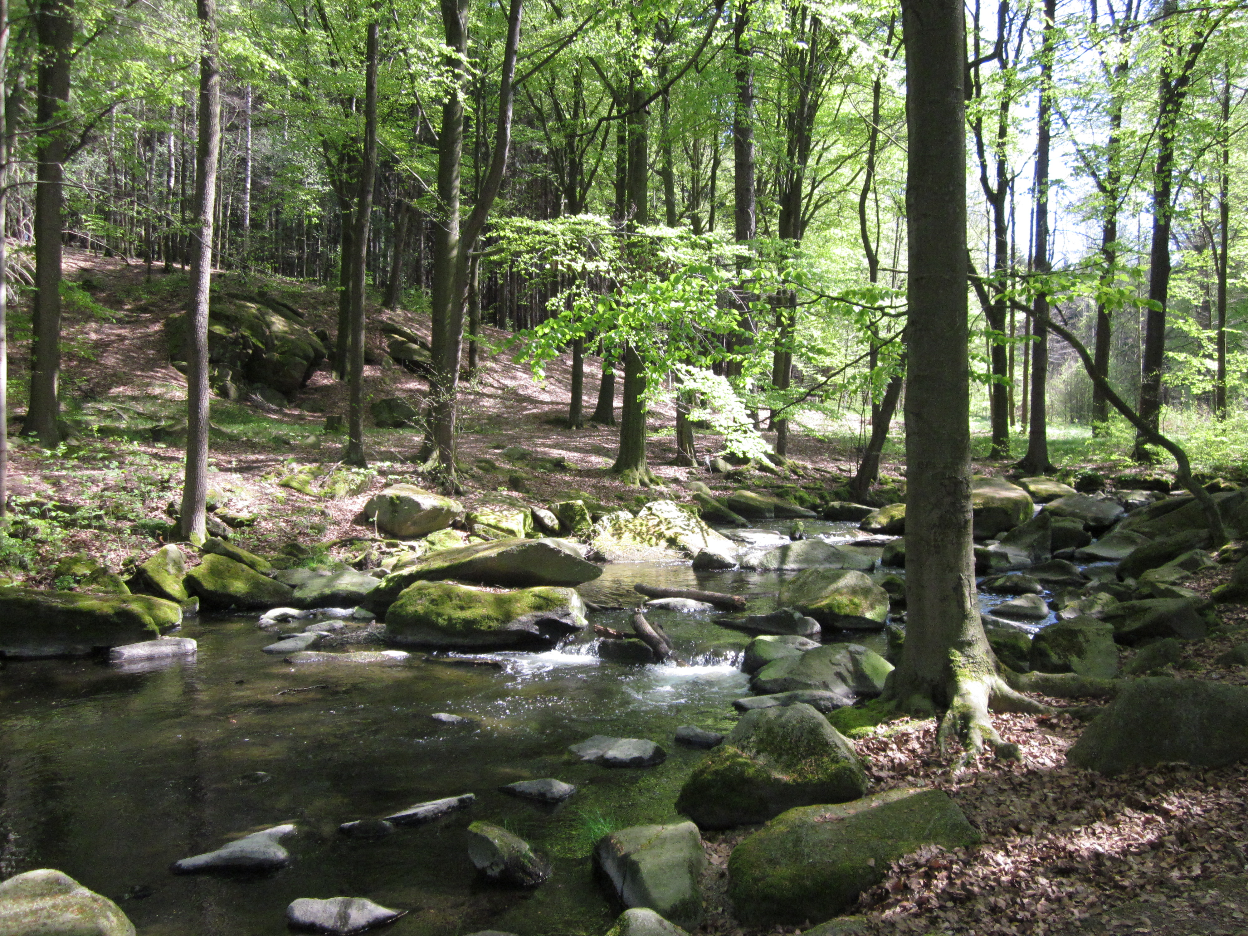 Spreepark Spreepark in der Oberlausitz